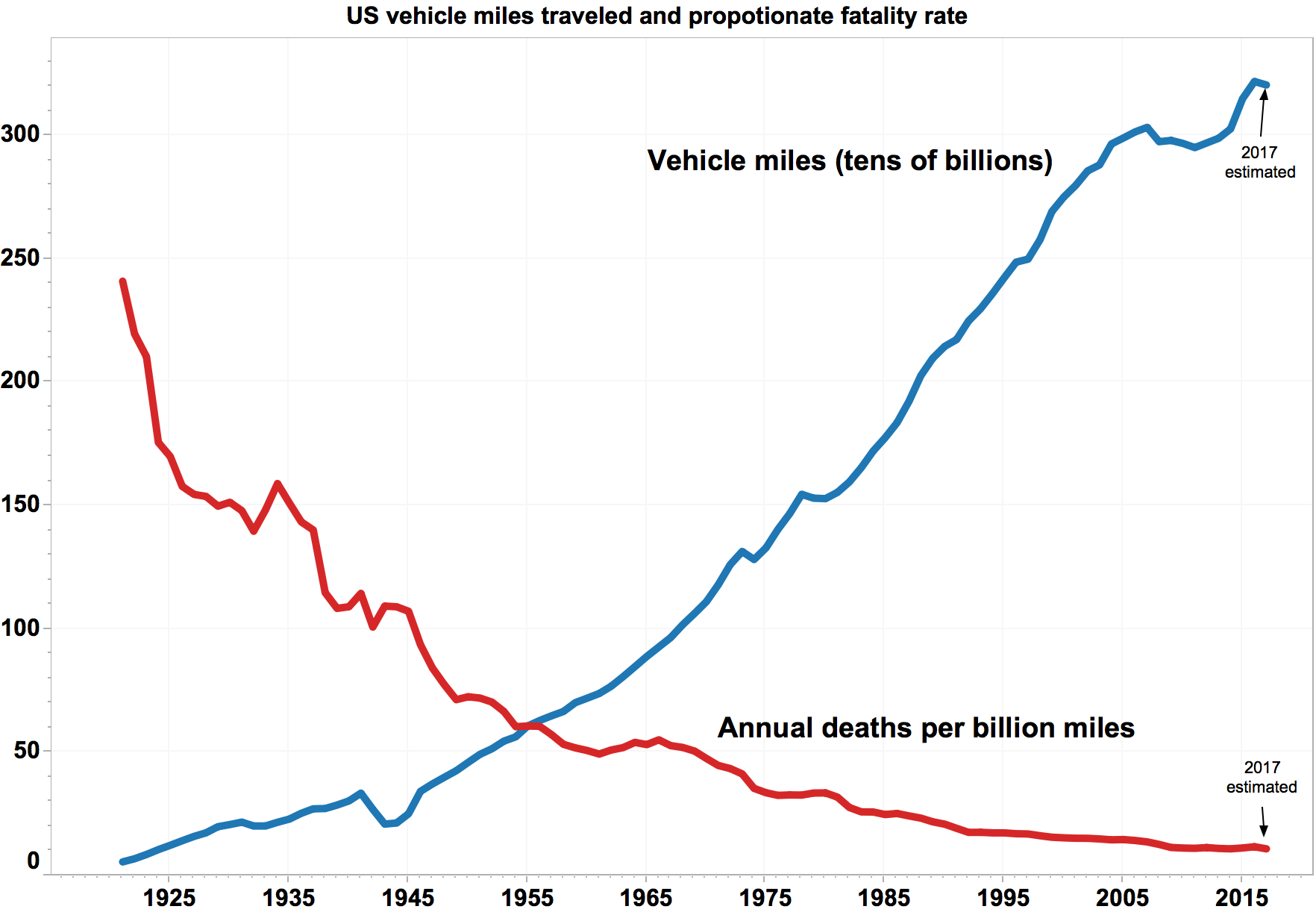 Line graph of United States annual traffic deaths per billion vehicle miles traveled (VMT) vs. annual VMT (billions). Sources: Created with Tableau